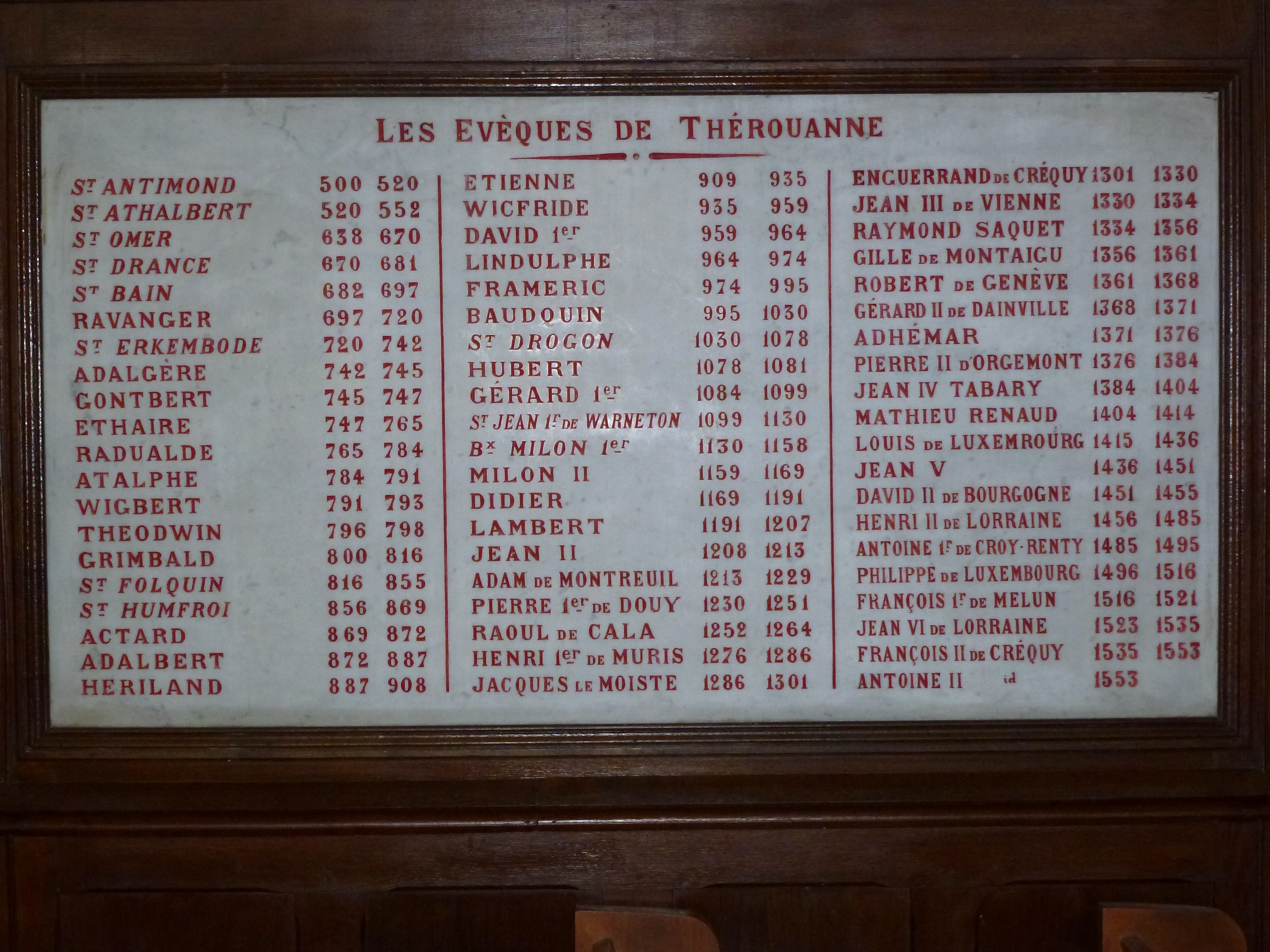 Thérouanne (Pas-de-Calais, Fr) église Saint-Martin, plaque liste des évêques